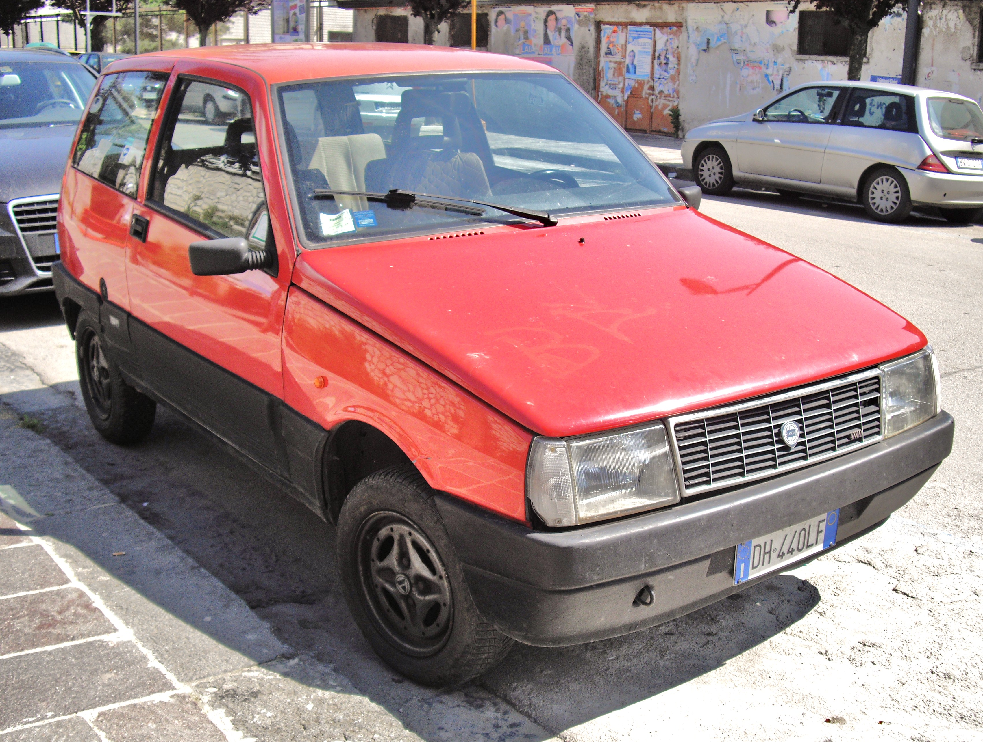 Lancia Y10 4WD